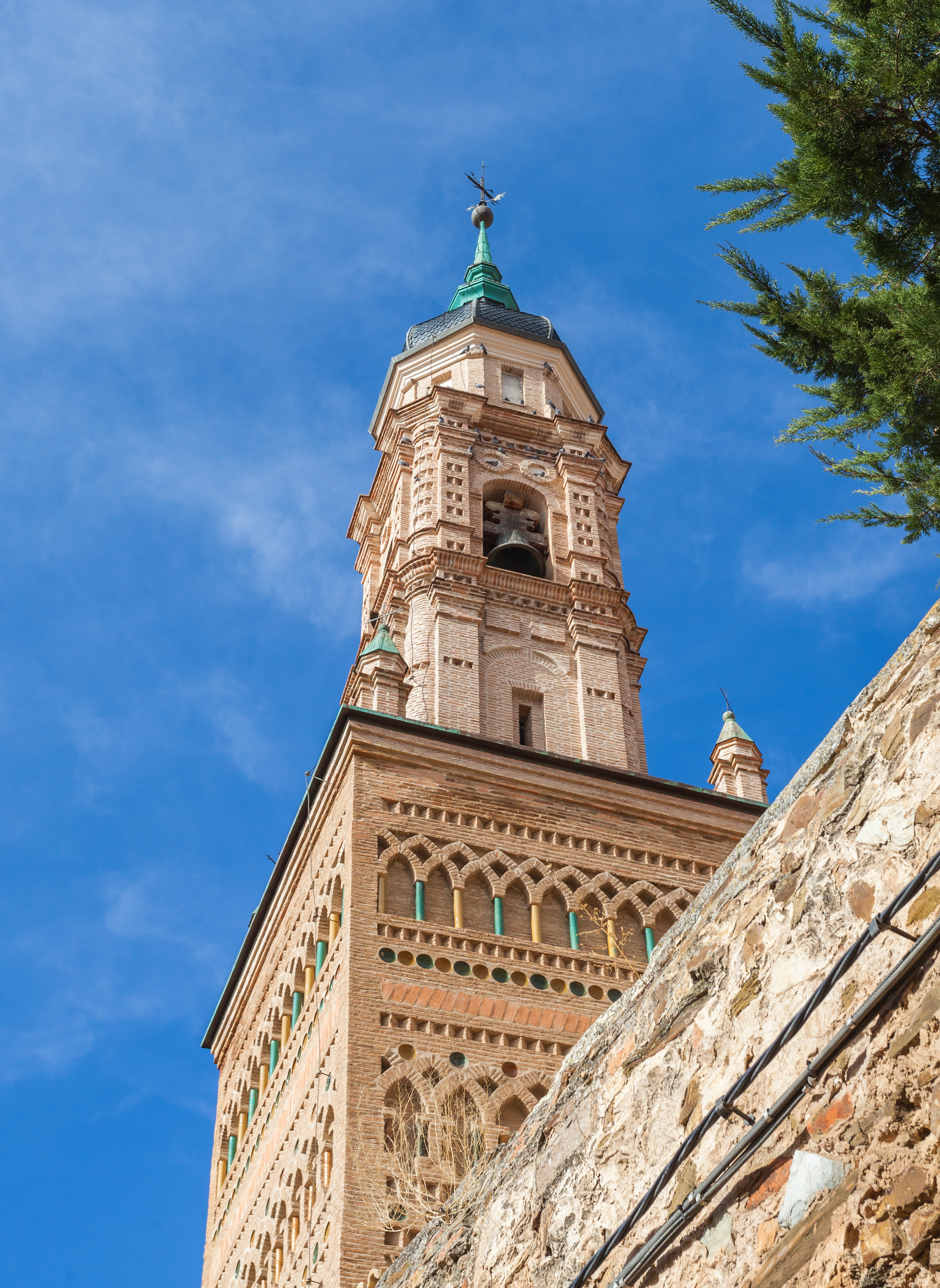 St Mary church, Ateca, Zaragoza, Spain